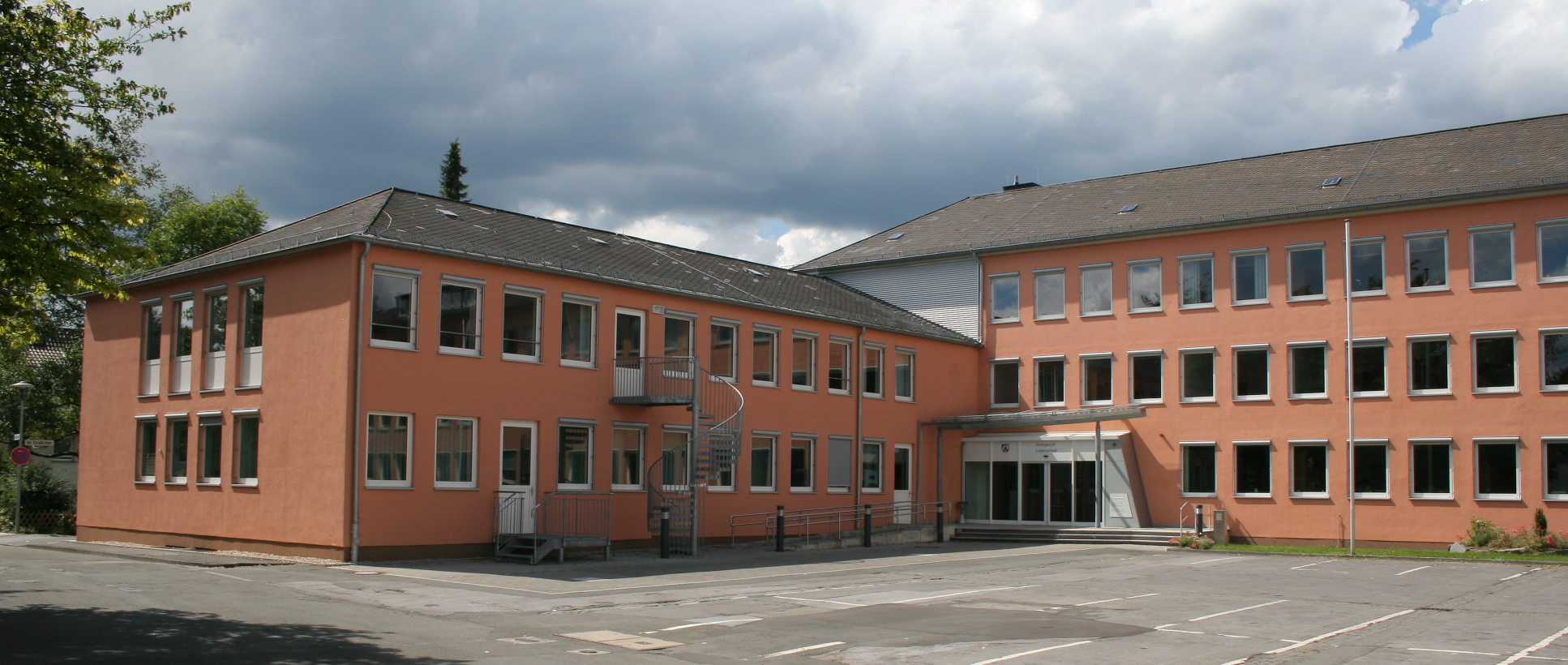 Courthouse of Lüdenscheid in Lüdenscheid